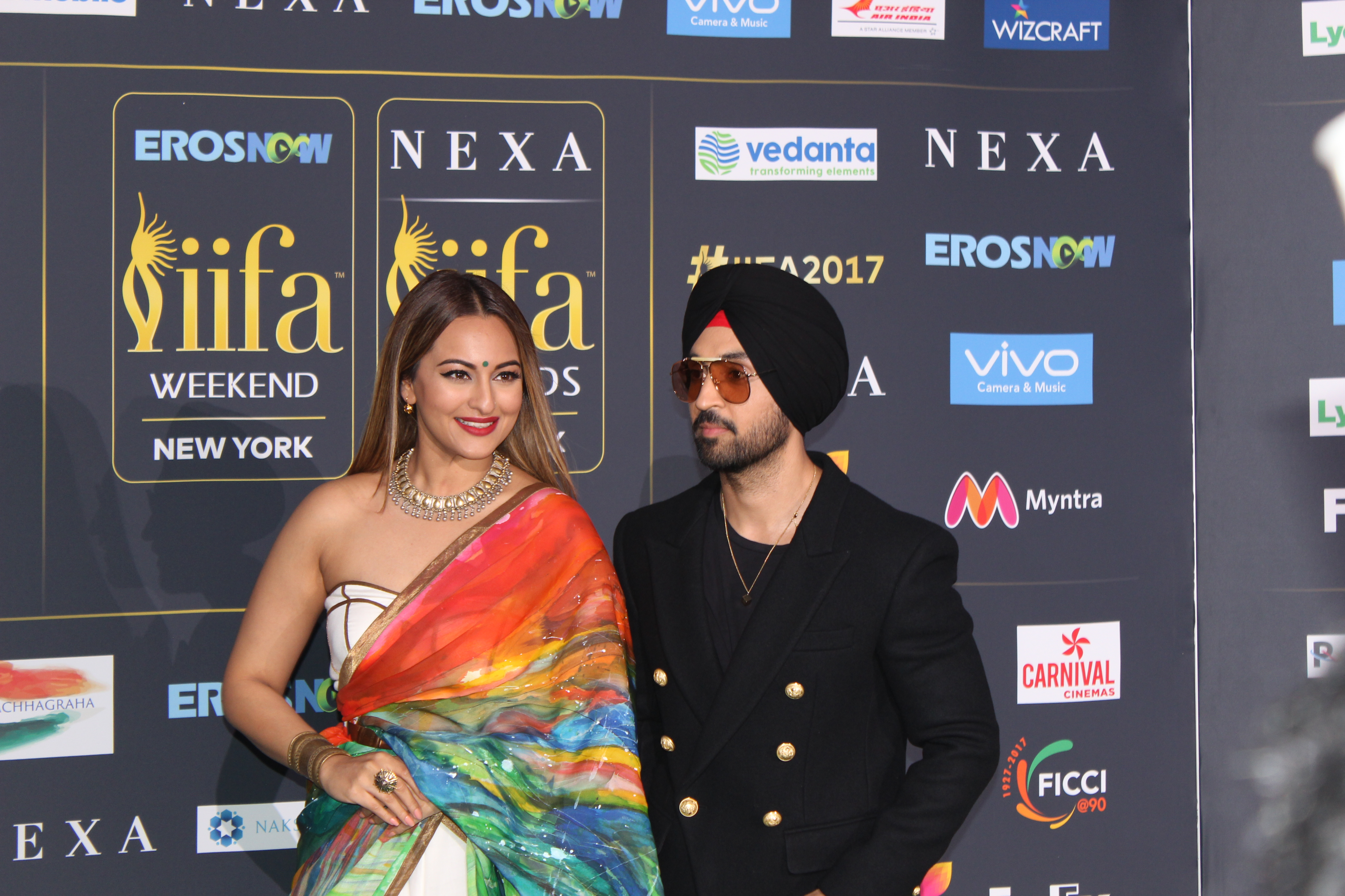 Sonakshi Sinha and Diljit Dosanjh at the International Indian Film Academy Awards Green Carpet (MetLife Stadium) in East Rutherford, New Jersey.